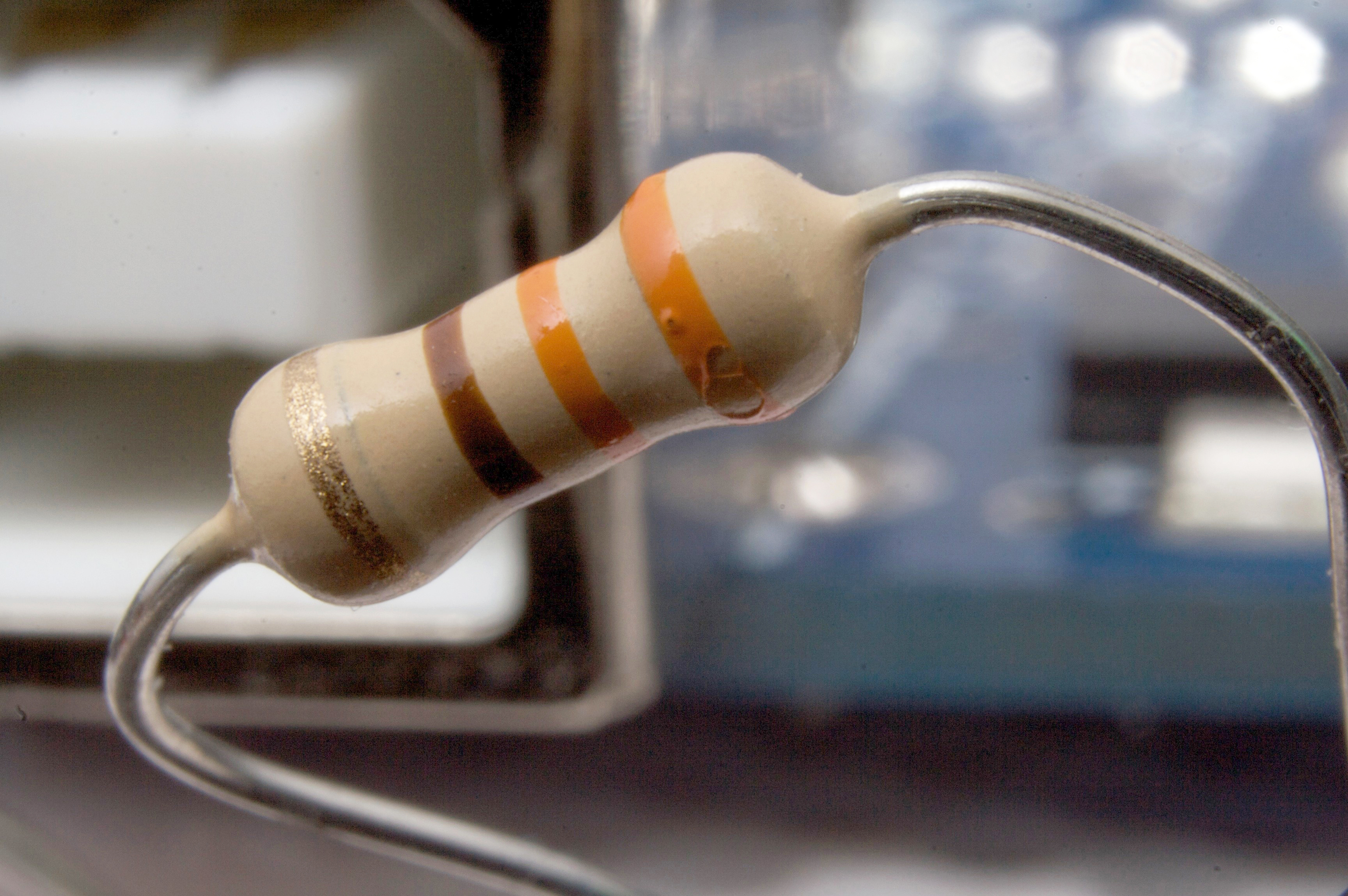 Showing a resistor component with 330 Ω and a tolerance of 5%